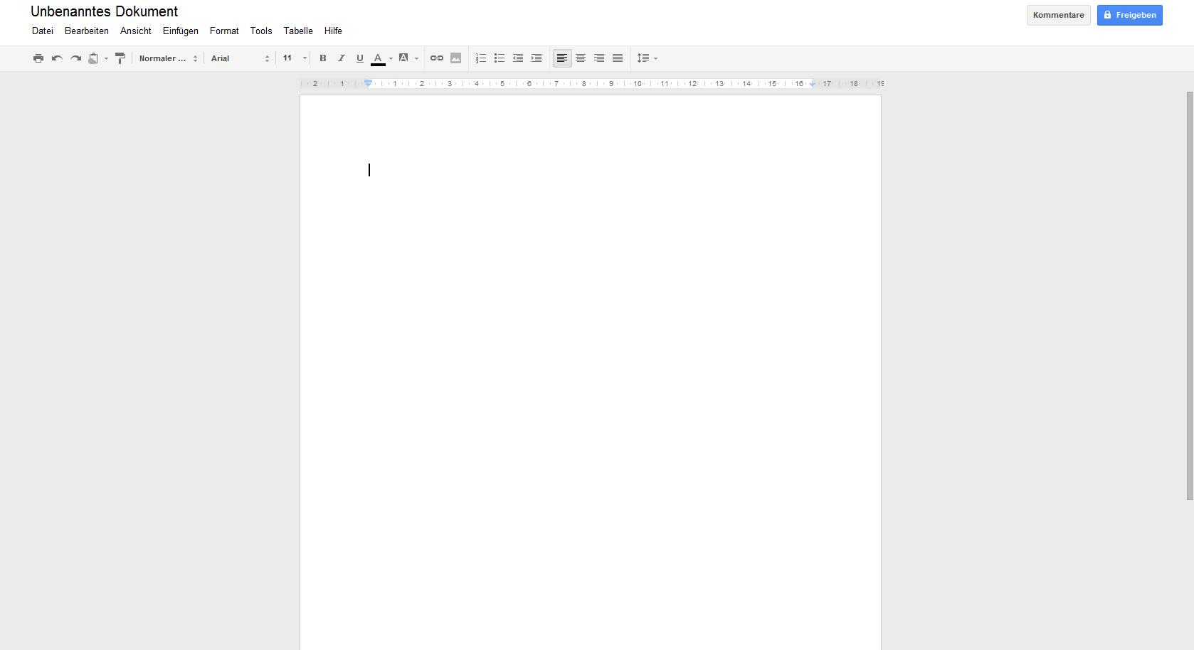 GoogleDocs